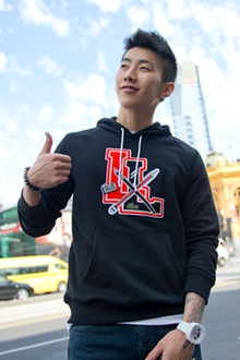 Jay Park in Flinders Street Station, Melbourne, Australia, in September 2012